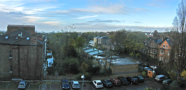 Belsize Park, London. A view from the 4th floor at the rear of the Holiday Inn on Haverstock Hill, Belsize Park. The house on the left, on Belsize Avenue, has a chimney stack with 24 chimney pots. Ornan Road, to the right of the picture, is a mix of Edwardian villas and 1960's housing built in the back gardens of Belsize Avenue. The buildings just visible on the horizon are in St John's Wood.